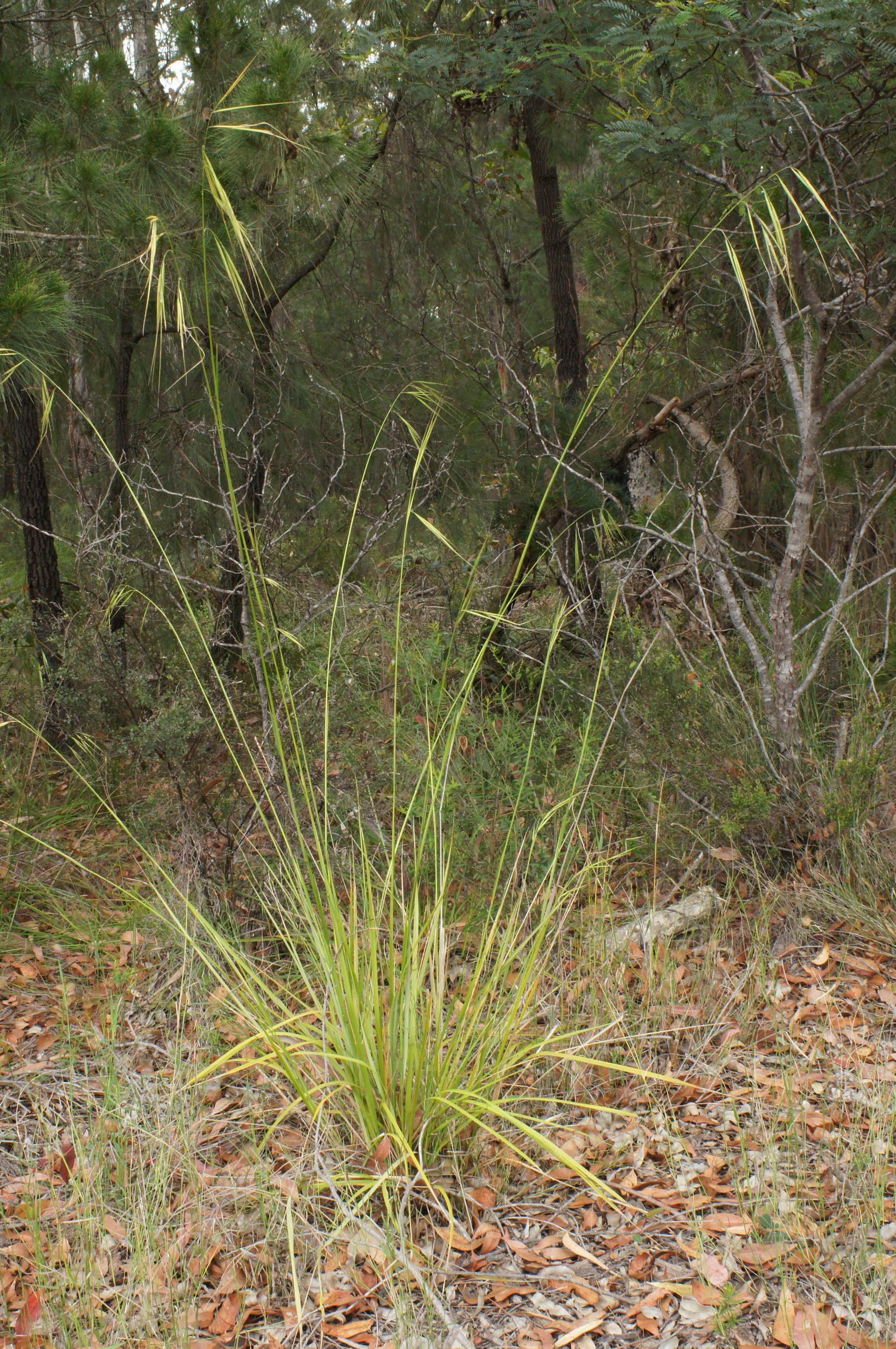 Native, warm-season, perennial, erect, tufted grass to 1.2 m tall. Found on low fertility sandstone or shale soils in dry eucalypt forest or heath where there is little grazing.